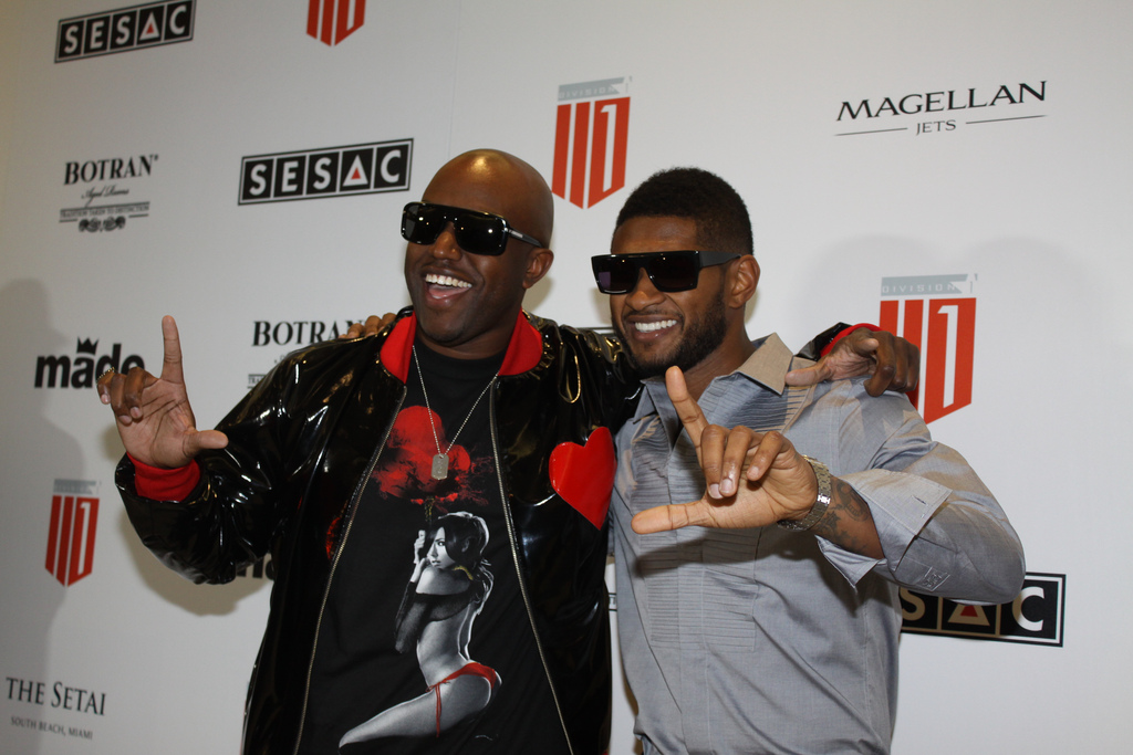 Usher Raymond & Rico Love at the Division 1 Launch Party 2010.